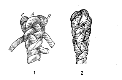 Making of a (1) and completed (2) single crown knot (tucked).